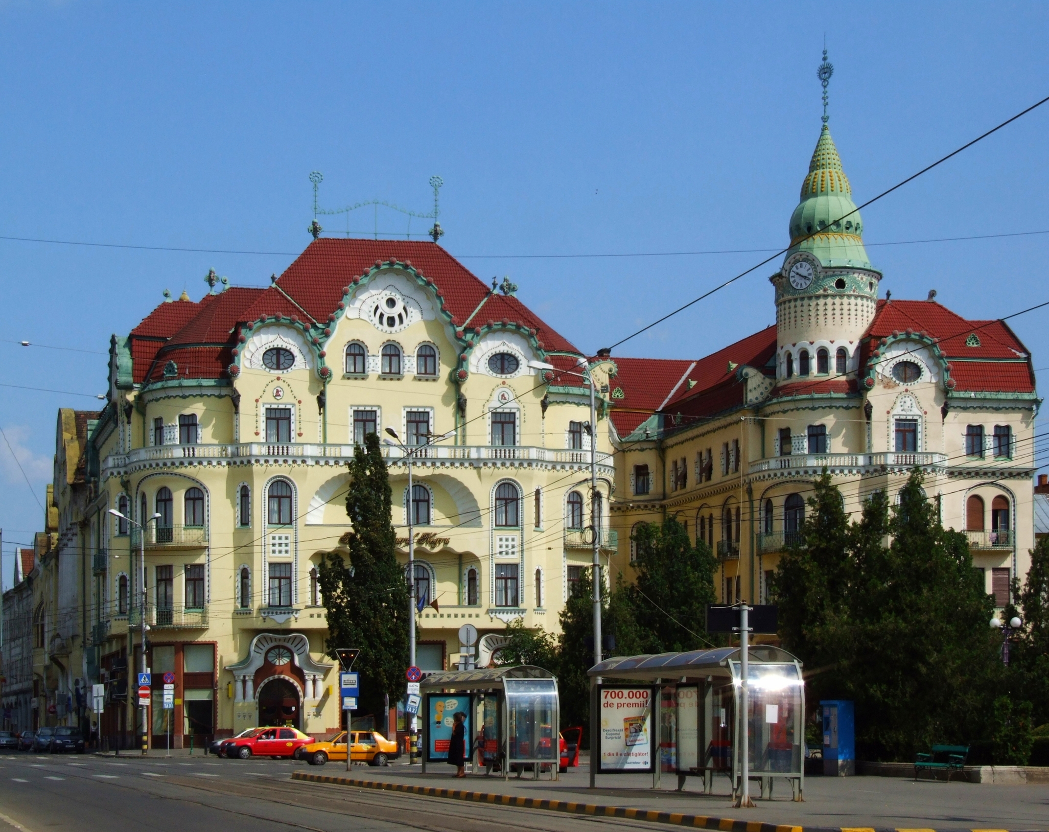 Oradea (Nagyvárad), Romania - Hotel Vulturul Negru, piaţa Unirii